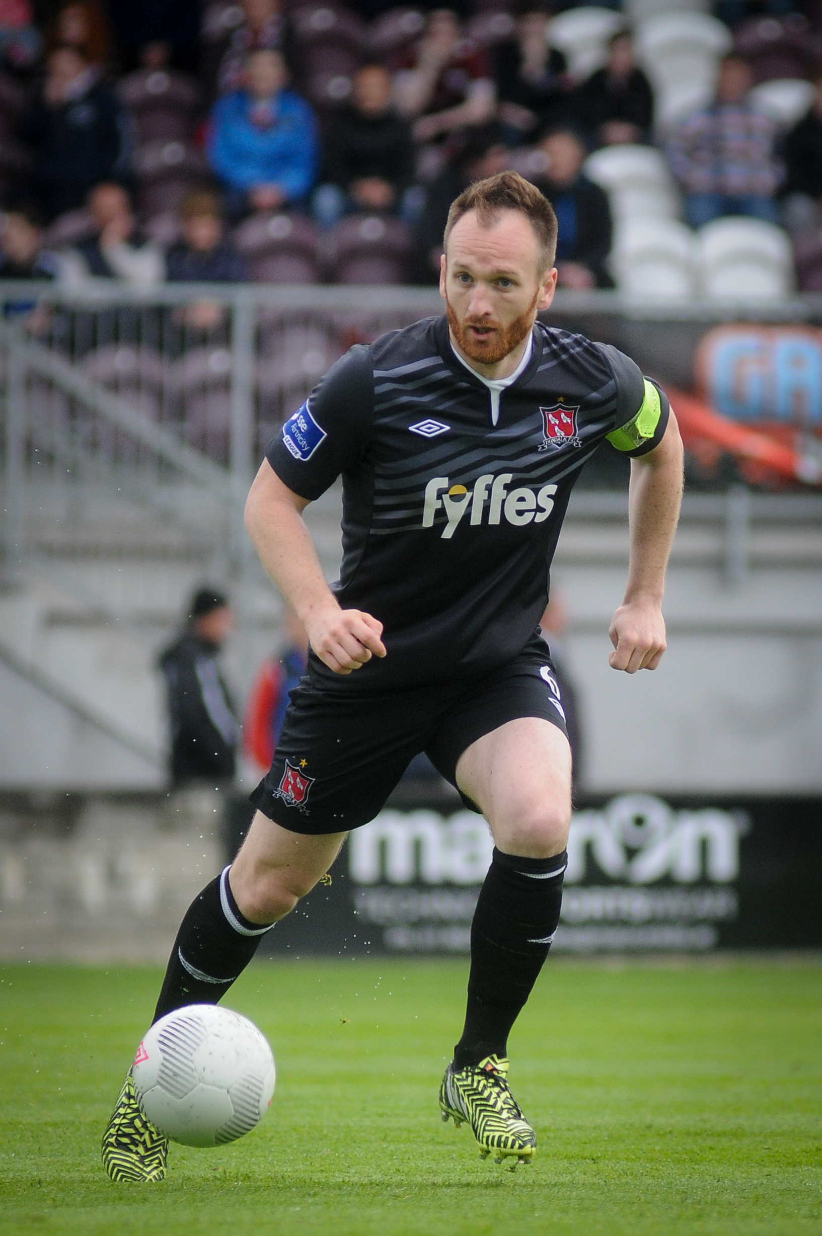 Stephen O'Donnell in action for Dundalk in the 2015 League of Ireland